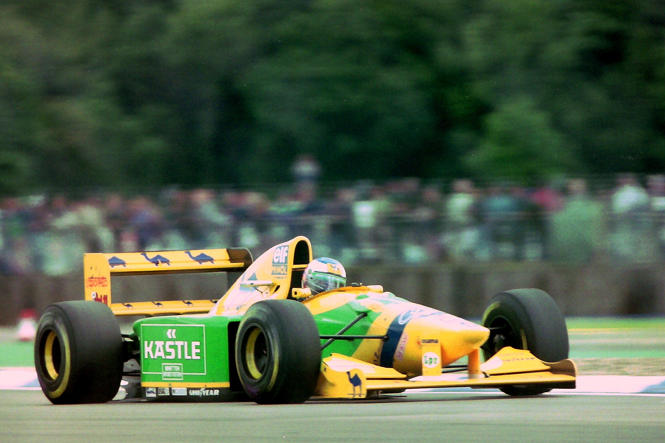 Michael Schumacher - Benetton B193B during practice for the 1993 British Grand Prix